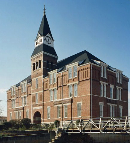 Atlanta University, Stone Hall, Morris Brown College Campus, Atlanta (Fulton County, Georgia) - cropped This file comes from the Historic American Buildings Survey (HABS), Historic American Engineering Record (HAER) or Historic American Landscapes Survey (HALS). These are programs of the National Park Service established for the purpose of documenting historic places. Records consist of measured drawings, archival photographs, and written reports. When reusing please credit: Library of Congress, Prints & Photographs Division, GA,61-ATLA,10A-13 This tag does not indicate the copyright status of the attached work. A normal copyright tag is still required. See Commons:Licensing. This work is in the public domain in the United States because it is a work prepared by an officer or employee of the United States Government as part of that person’s official duties under the terms of Title 17, Chapter 1, Section 105 of the US Code. Note: This only applies to original works of the Federal Government and not to the work of any individual U.S. state, territory, commonwealth, county, municipality, or any other subdivision. This template also does not apply to postage stamp designs published by the United States Postal Service since 1978. (See § 313.6(C)(1) of Compendium of U.S. Copyright Office Practices). It also does not apply to certain US coins; see The US Mint Terms of Use. This file has been identified as being free of known restrictions under copyright law, including all related and neighboring rights. Object location33° 45′ 21″ N, 84° 29′ 03″ W